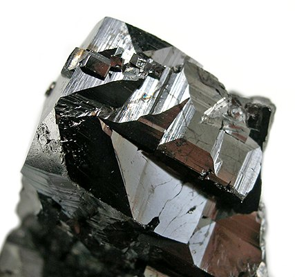 Magnetite Locality: ZCA Mine No. 4 (St Joe Mine; ZCA No. 4 mine), Balmat, Balmat-Edwards Zinc District, St Lawrence County, New York, USA (Locality at ) Size: miniature, 4.2 x 3.3 x 3.1 cm Magnetite These incredibly lustrous, sharp magnetites shocked people when they first came out in the 90s, from this working zinc mine. This is from the best pocket hit, in 1992, with big fat lustrous crystals! If you sit and look at them, you quickly see an incredible complexity of surface faces, curved outgrowths of the cubic form upon what seemed from afar like simply flat faces. This is a very aesthetic cluster, with 3-dimensional form and super lustre. These are not "black rocks", but rather minerals with such jet-black and LUSTROUS surface that its almost OK to call them colorful. An American classic, now,and hard to obtain in this quality. The piece is really hard to photo - it is better in person. There is damage or contact on either side of the main display face, but it can be displayed with the predominant crystal showing nicely, above it all. Its really a very good piece, just hard to convey this in writing and photos.